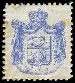 The Coat of Arms of the Principality of Samos on a postal stamp, issued in 1878.